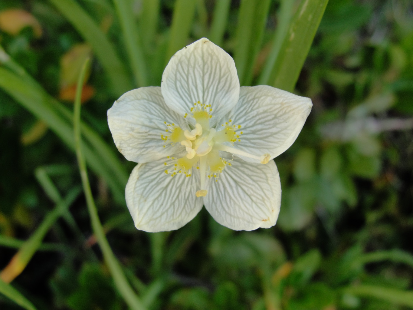 Parnassia californica in the Sierra Nevada, California, USA.